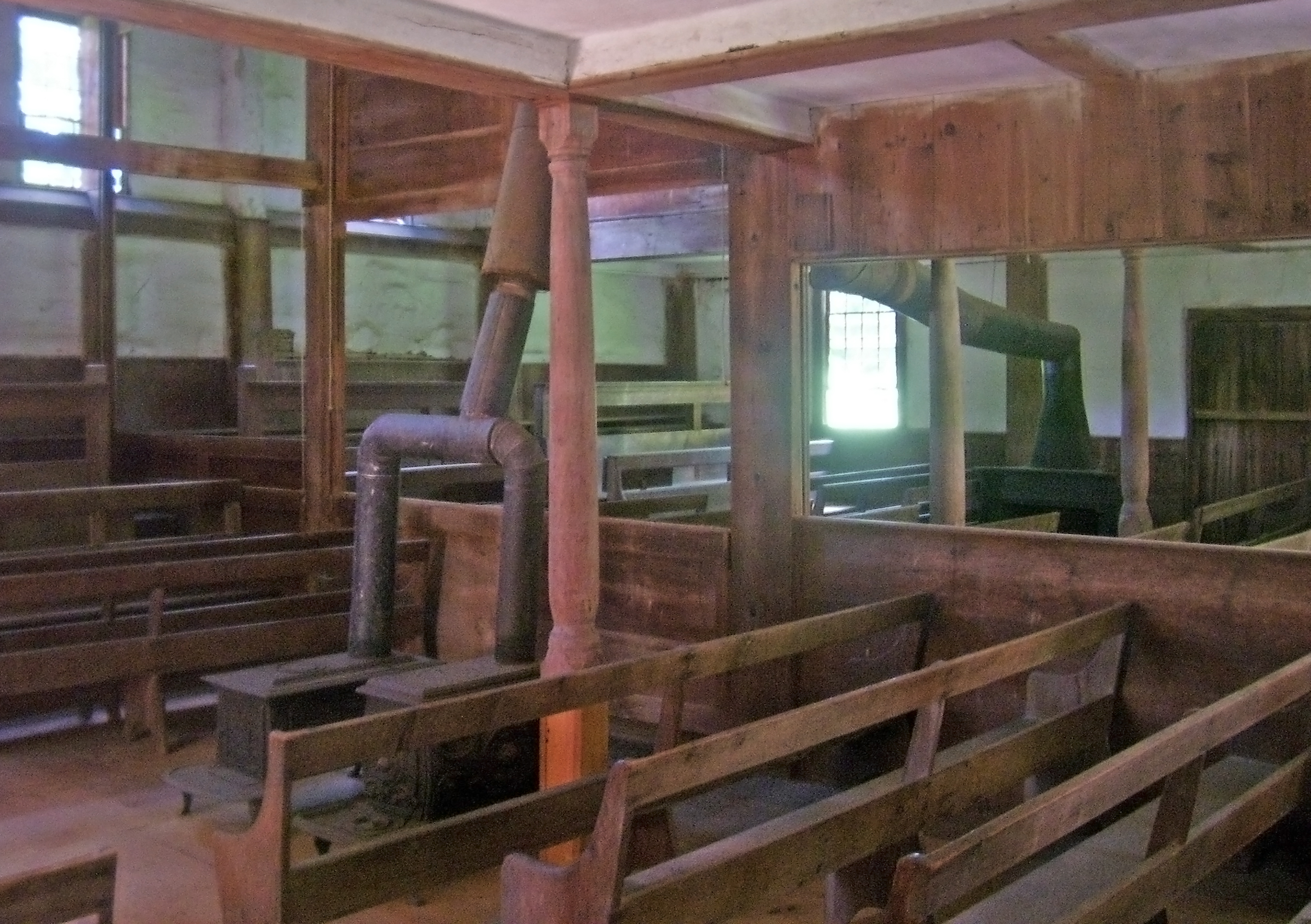 Interior of Oblong Friends Meeting House, Pawling, NY, USA